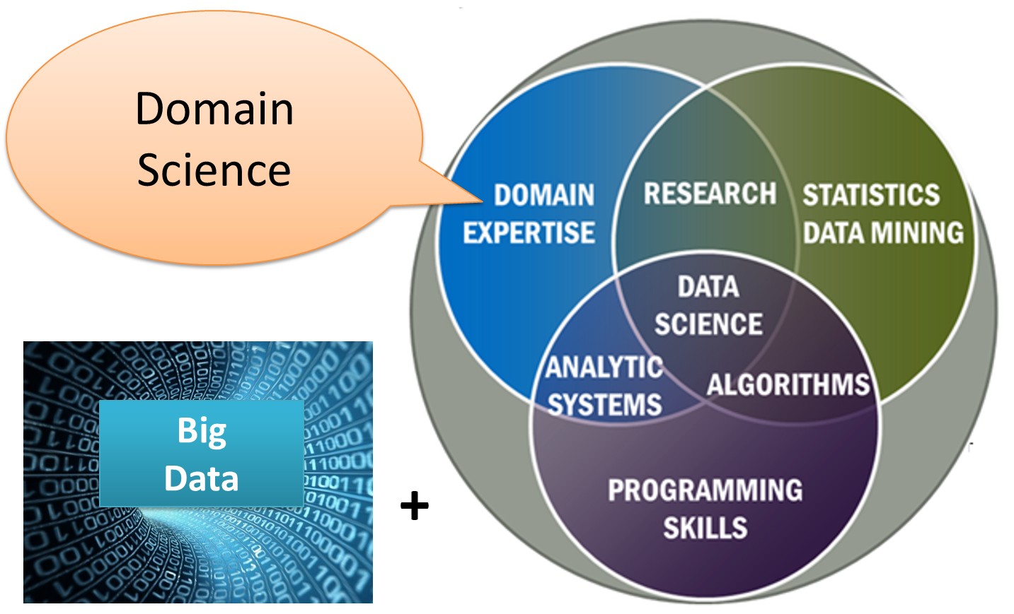 Data Science. Adapted from the Data Science venn diagram (cite: NIST big data workgroup)